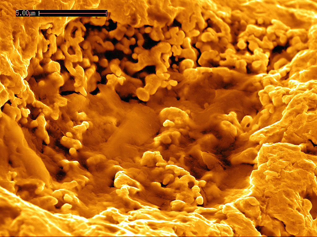 Bacteria play an important role in the formation of gold nuggets in Australia according to recent research. The research was carried out by the Cooperative Research Centre for Landscape Environments and Mineral Exploration (CRC LEME) and led by CSIRO researcher, Dr Frank Reith. His study of gold grains, from the Tomakin Park and Hit or Miss gold mines in southern New South Wales and northern Queensland respectively, led to a series of discoveries which showed that specific bacteria present on these gold grains precipitate gold from solution. Applying molecular biology techniques, Dr Reith discovered a living biofilm on the surface of gold grains collected. DNA profiling of this biofilm identified 30 bacterial species with populations unique to the gold grains when compared to the surrounding soils. One species was identified on all of the DNA-positive gold grains from both locations. DNA sequence analysis of this bacterium identified it as Ralstonia metallidurans.